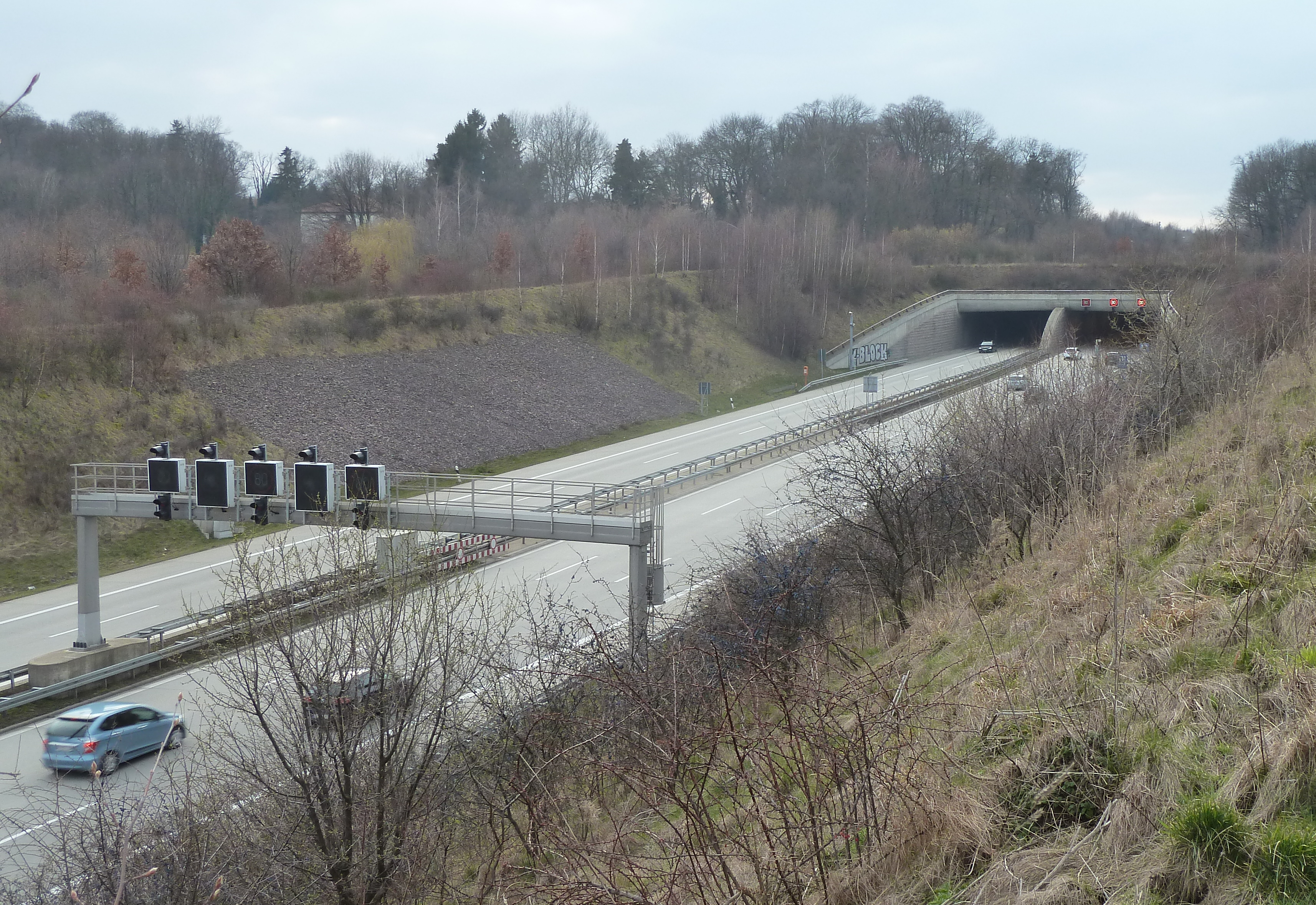 Eastern portal of Altfranken Tunnel near Dresden